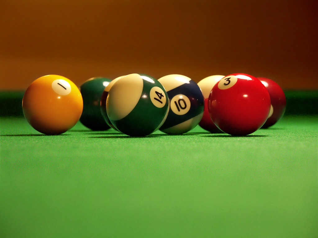 Close-up picture of billiard balls